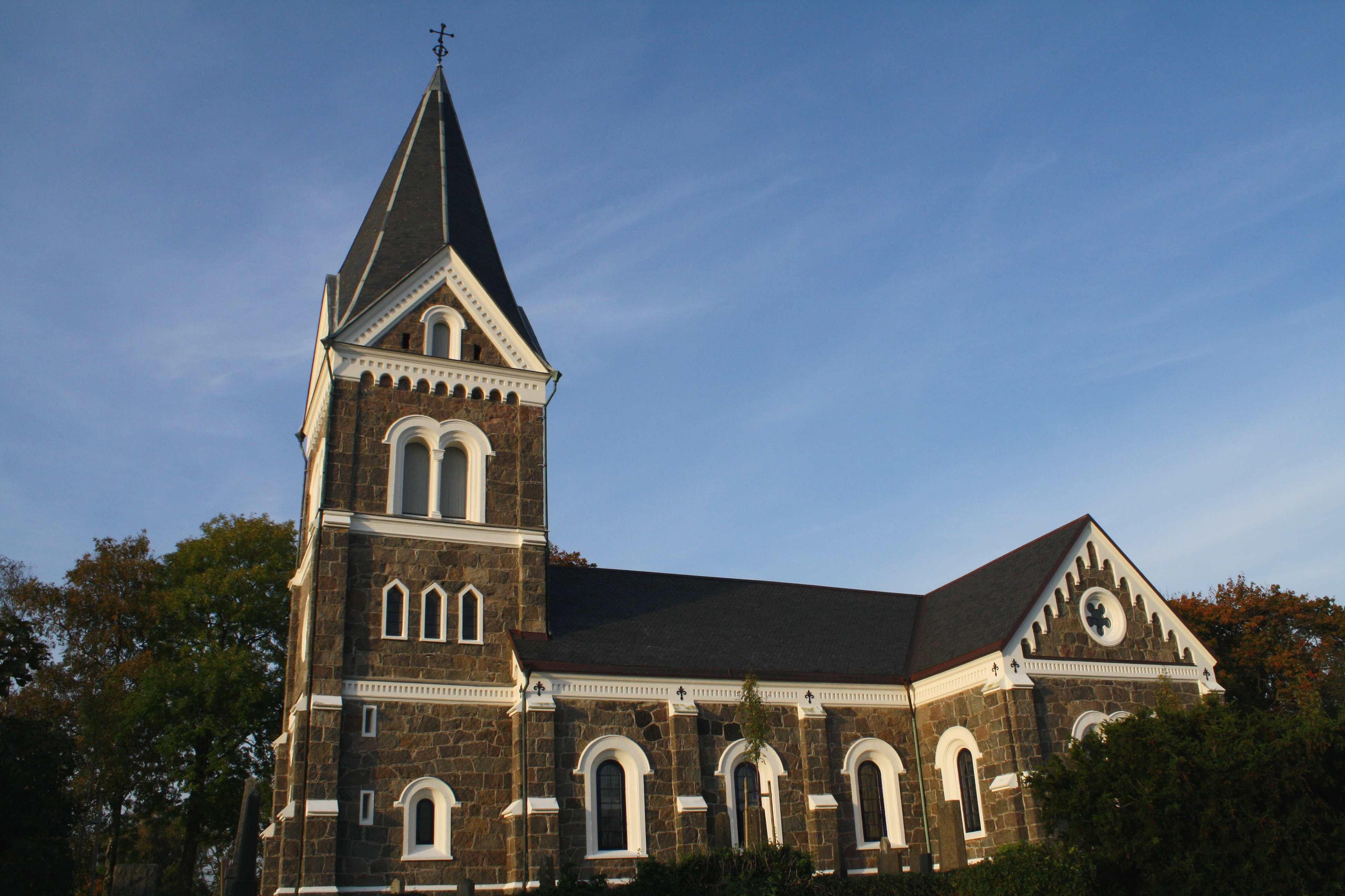 The church at Södra Rörum, Scania